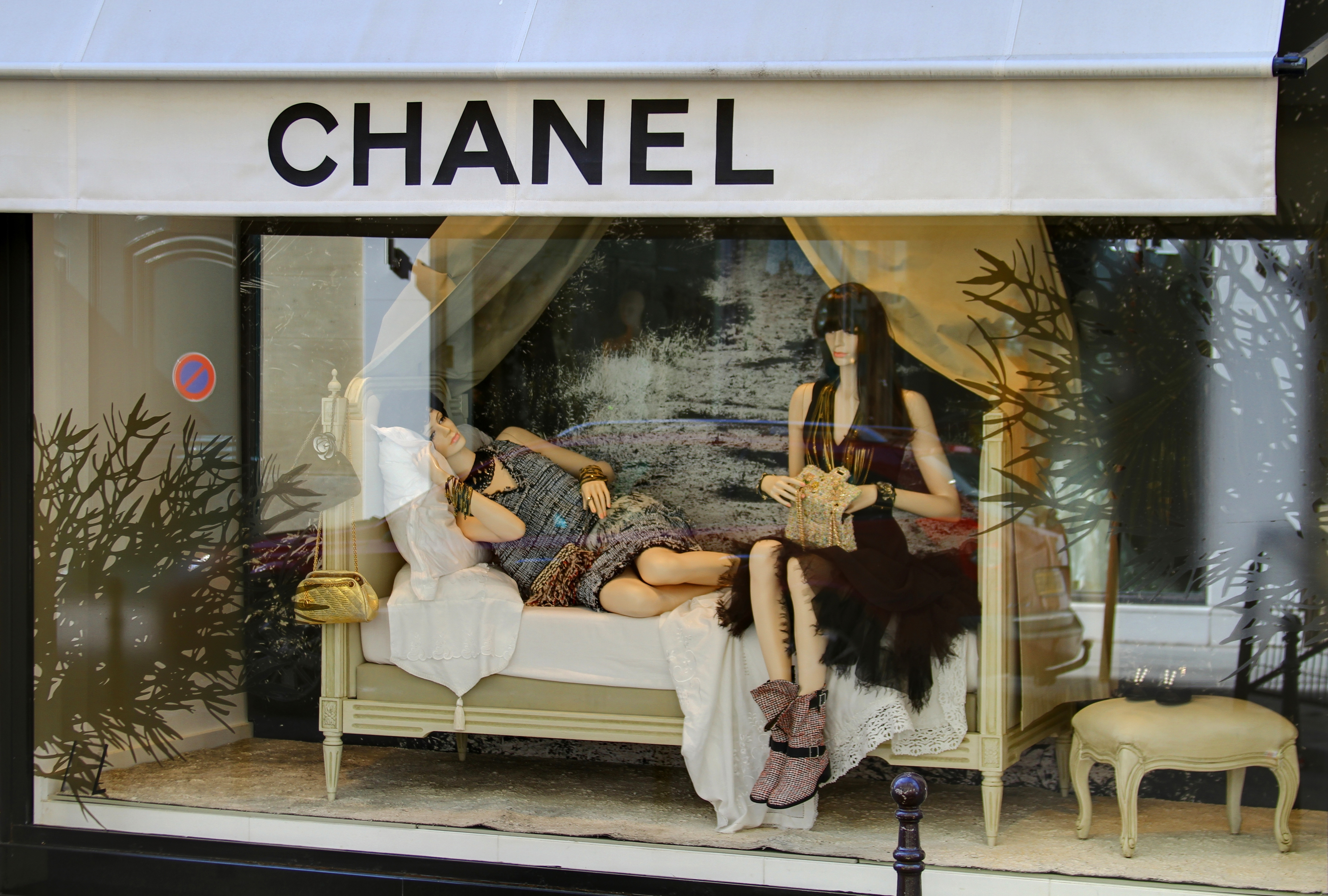 Chanel Cambon, 31 Rue Cambon, 75001 Paris, France.